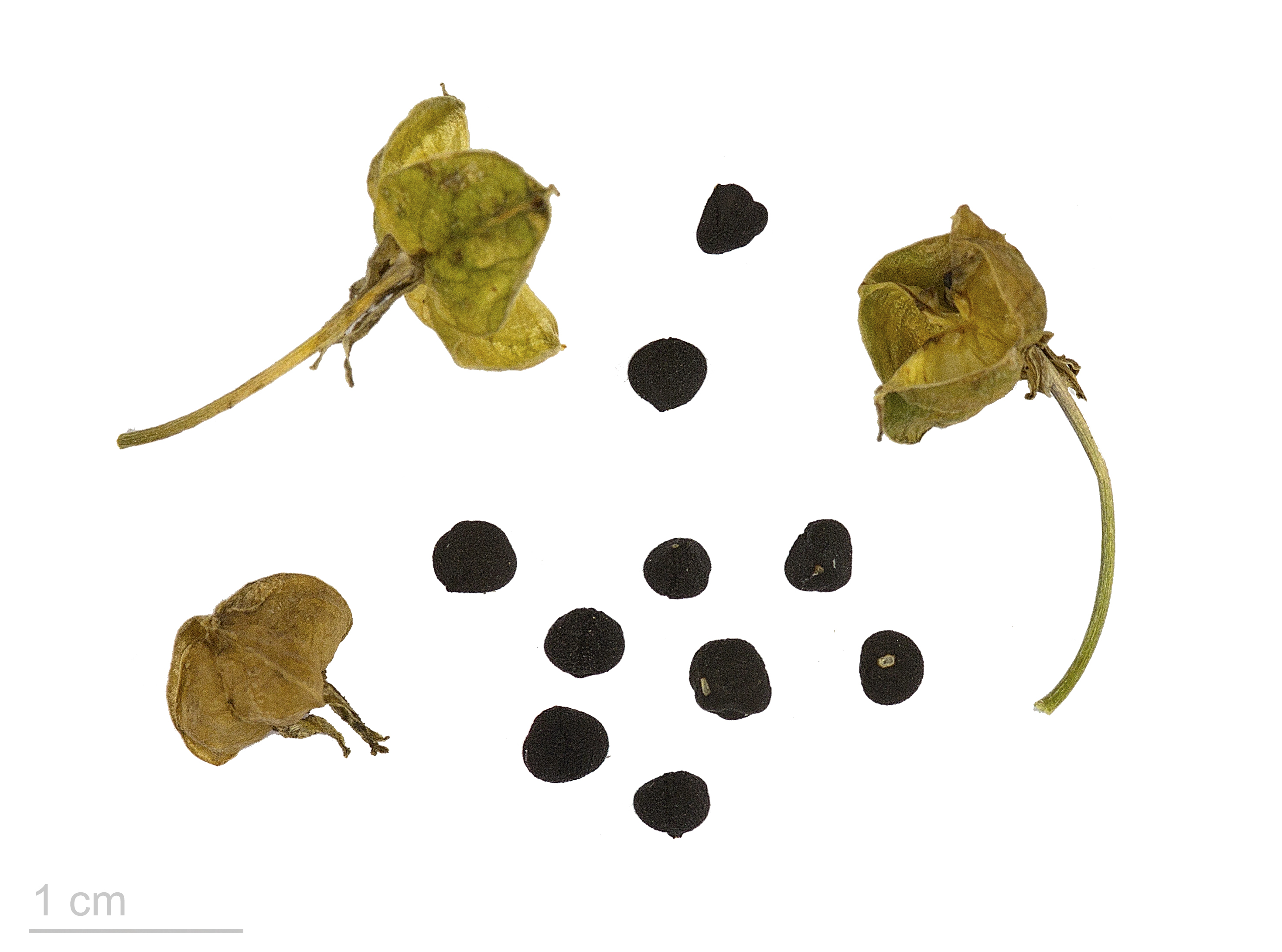 Tractema lilio-hyacinthus, , seeds